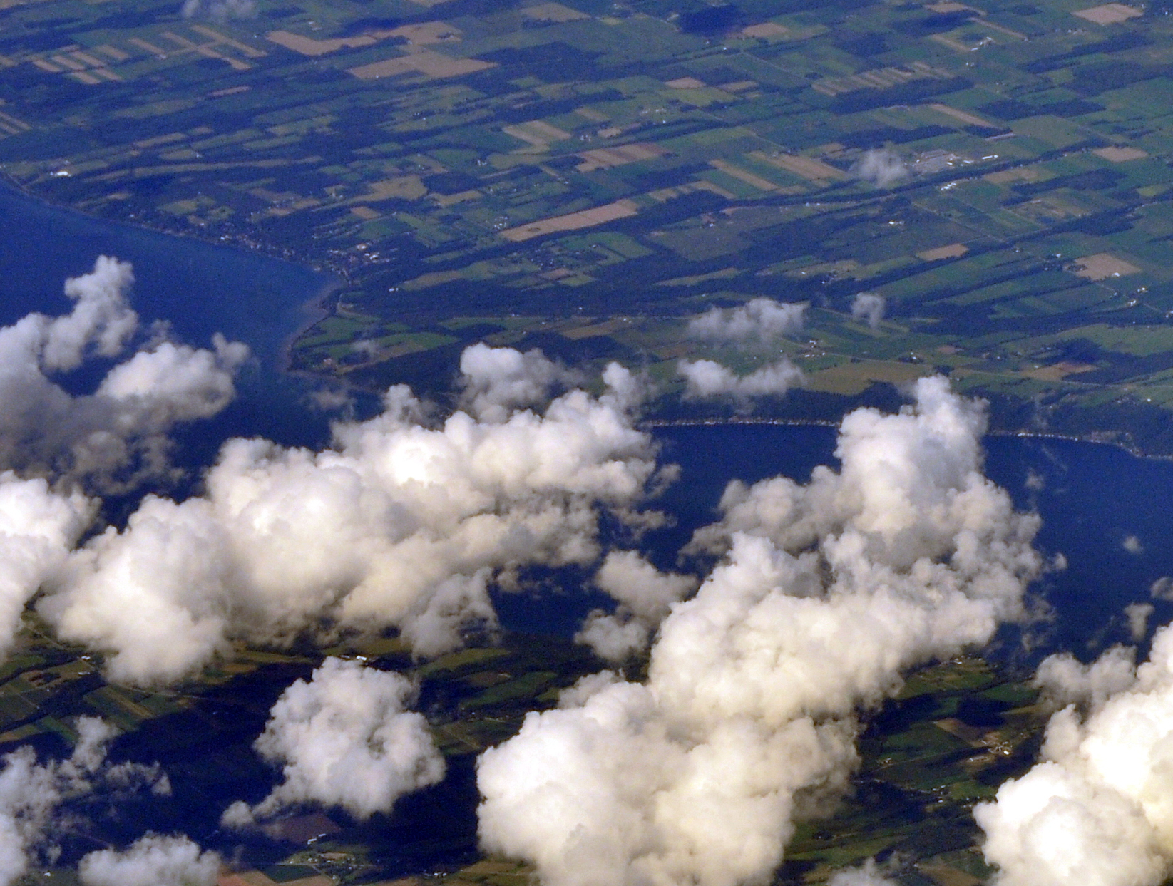 Aerial view of Long Point State Park and nearby Aurora, Cayuga County, New York on Cayuga Lake, from SSW.